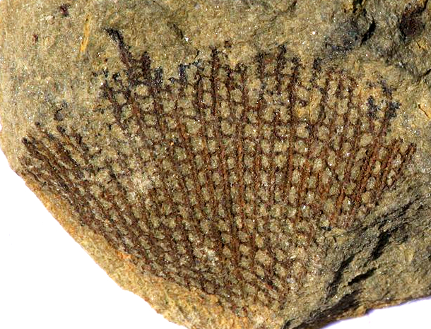 Fossil Bryozoan of the genus Fenestella found in an abandoned limestone quarry near the town of Couvin, Namur Province, Belgium, early Upper Devonian (Frasnian)